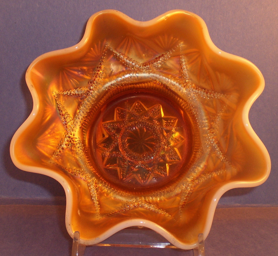 This is a berry bowl that measures about 6 inches across. It was made by the Dugan Glass company that went out of business in 1931. There are no copyright marks on the piece.